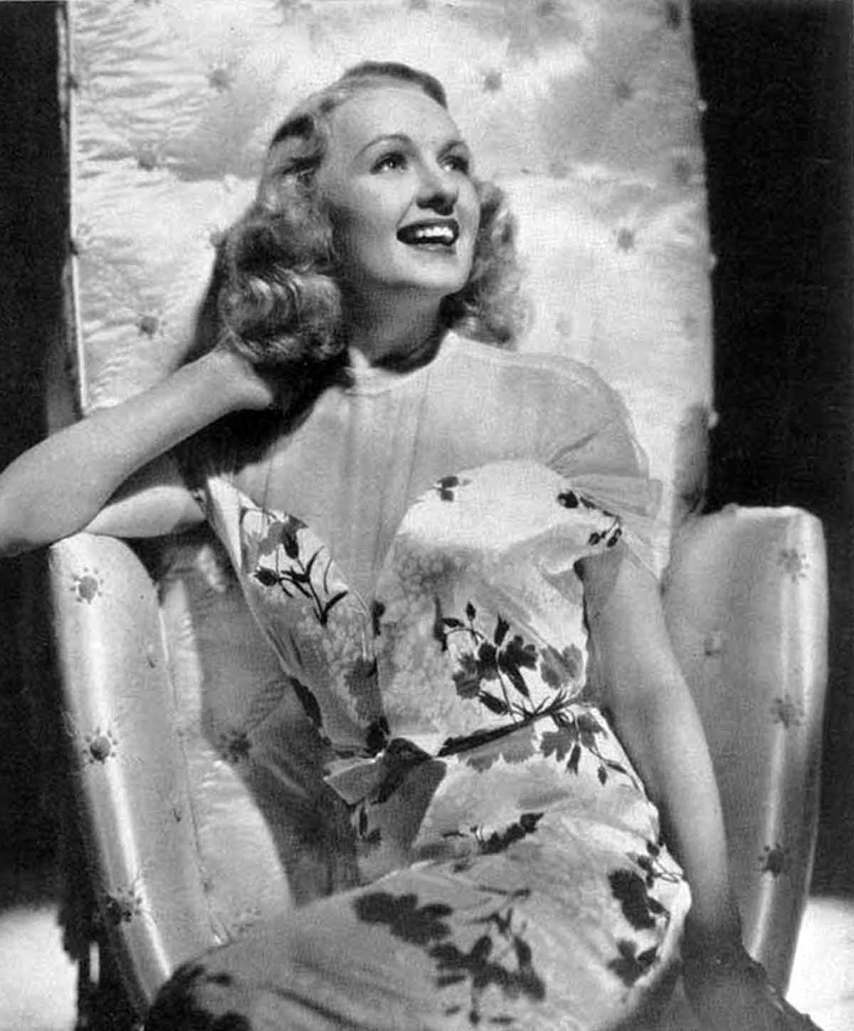 Publicity photo of Virginia Dale for Argentinean Magazine. (Printed in USA)